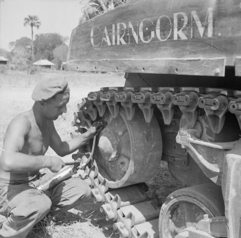 The British Army in Burma 1945 "Corporal Wilson, of 116th Regiment, Royal Armoured Corps, using a grease gun on the idler wheel of 'Cairngorm', a Sherman tank between Taungtha and Meiktila, 15 March 1945.